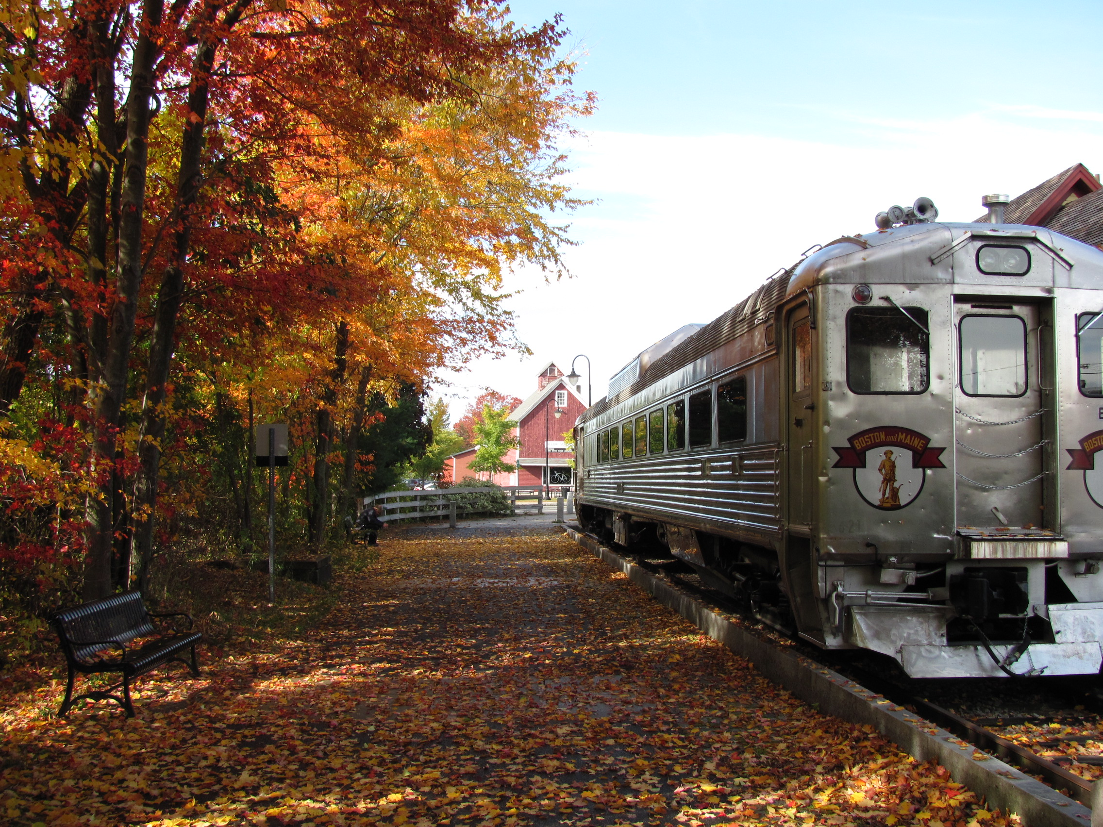 Boston and Maine 6211, Bedford Depot, Bedford Massachusetts